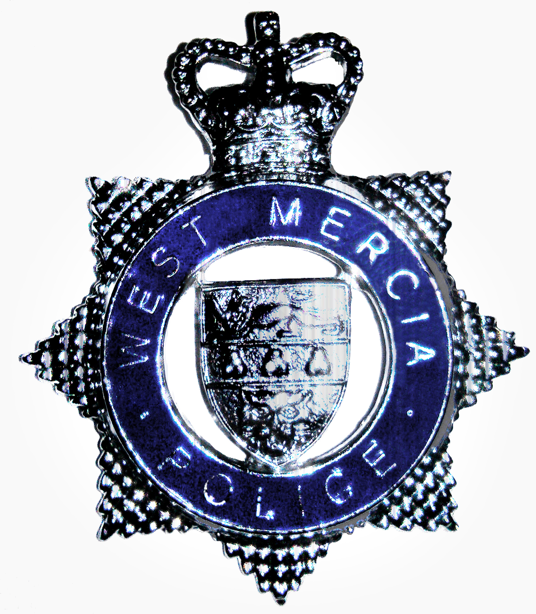 Cap Badge of West Mercia Police